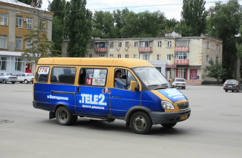 GAZelle bus (#776) in Russia.